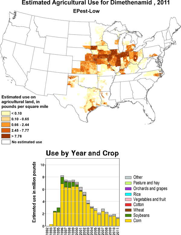 Dimethenamid map of use, USA, 2011 (estimated)